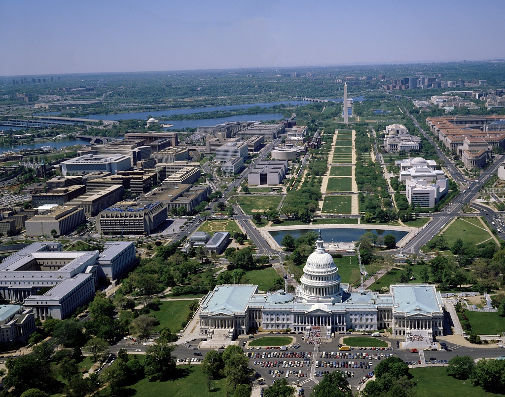 Aerial view from above the U.S. Capitol, looking west along the National Mall, Washington, D.C.